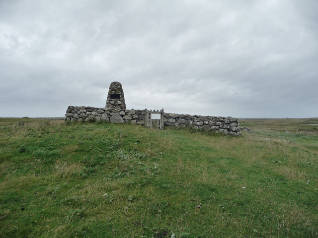 Not Flora MacDonald's birthplace It is claimed to be so by the OS map, but is not. The memorial cairn is on the foundations of the house in which she lived for many years following her birth in 1722 at nearby Milton.